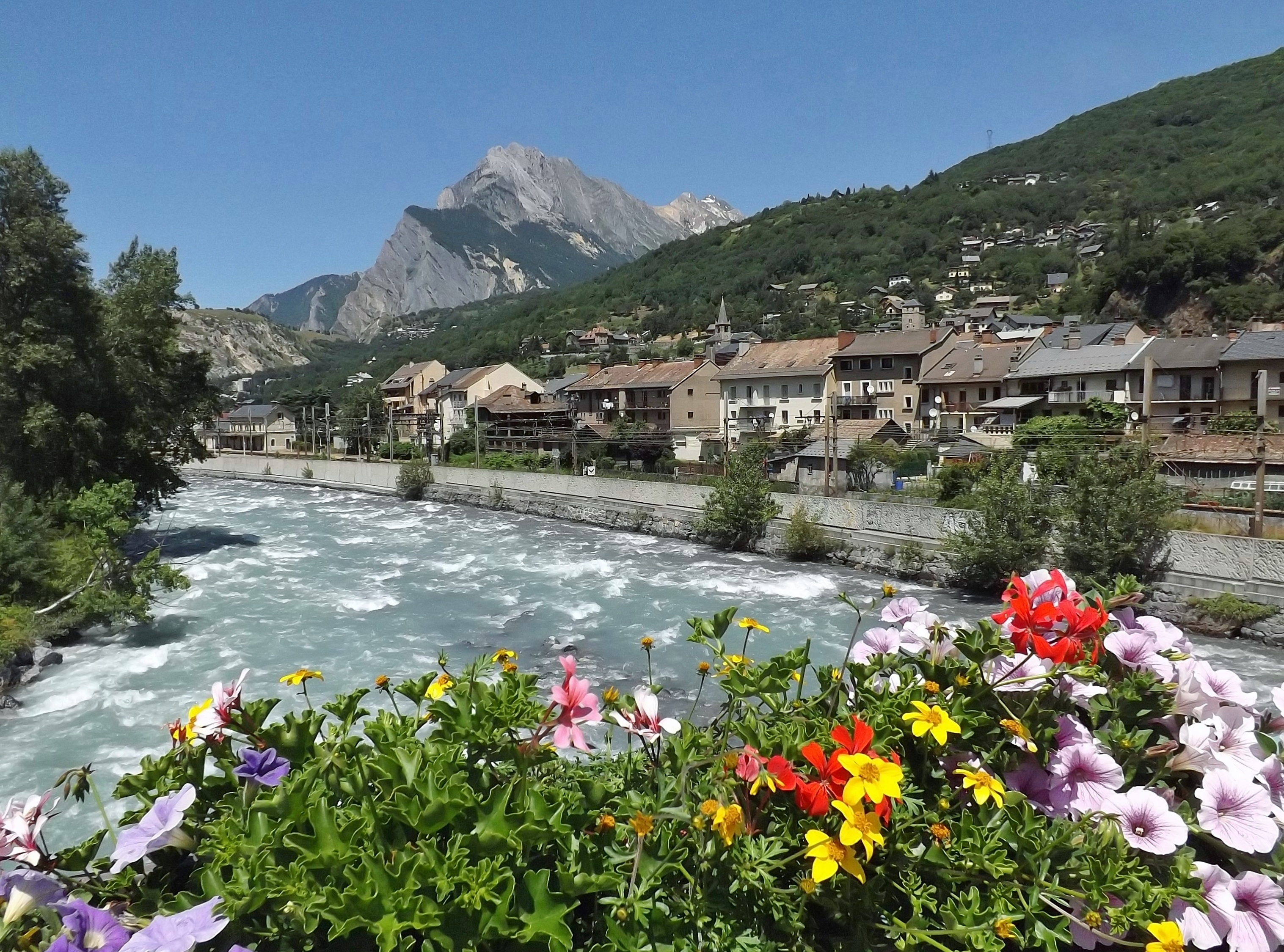 Sight of the French city of Saint-Michel-de-Maurienne, along of the river Arc in the Maurienne valley, in Savoie. Can also be seen the Croix des Têtes mountain.